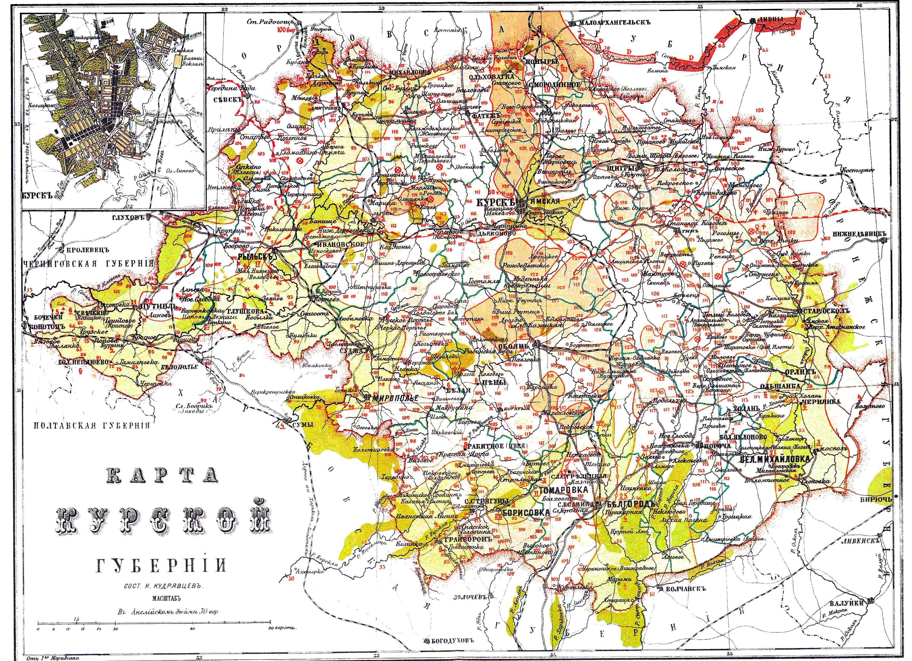 Kursk Gubernia Map (Russian empire)